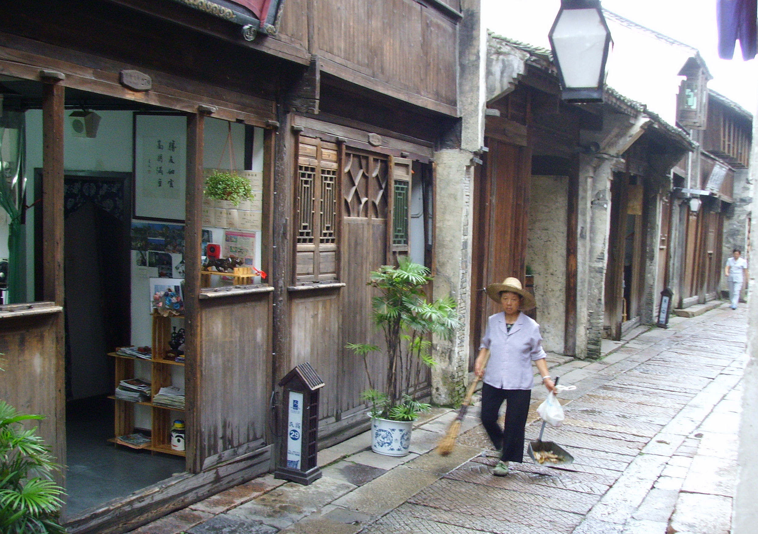 Wuzhen Xizha, Tongxiang, Zhejiang, P. R. of China: northern main street